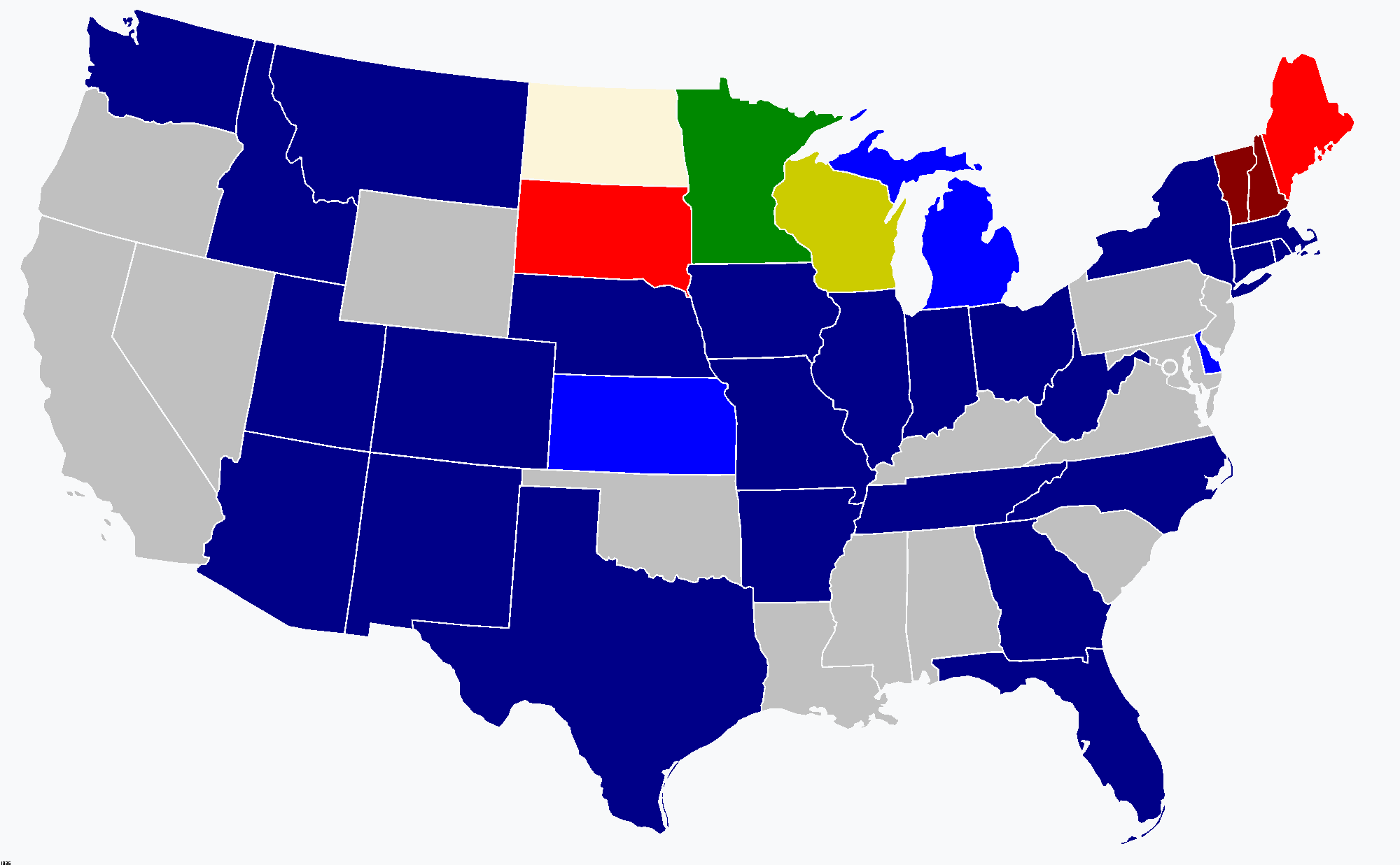 A map showing the results of the 1936 United States Gubernatorial elections